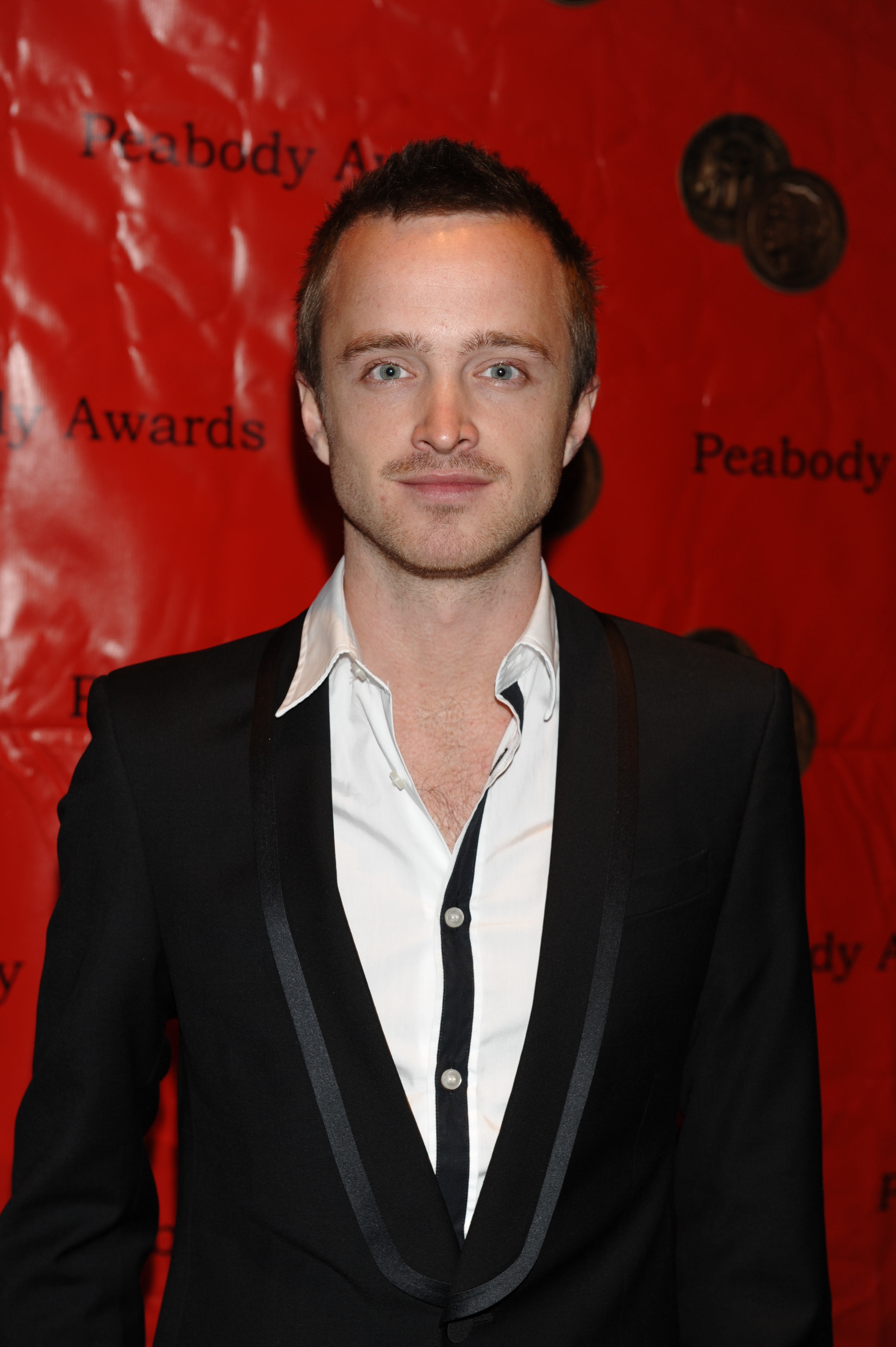 PHOTO CREDIT: ANDERS KRUSBERG / PEABODY AWARDS Aaron Paul 68th Annual Peabody Awards Luncheon Waldorf=Astoria Hotel New York, NY USA May 18, 2009